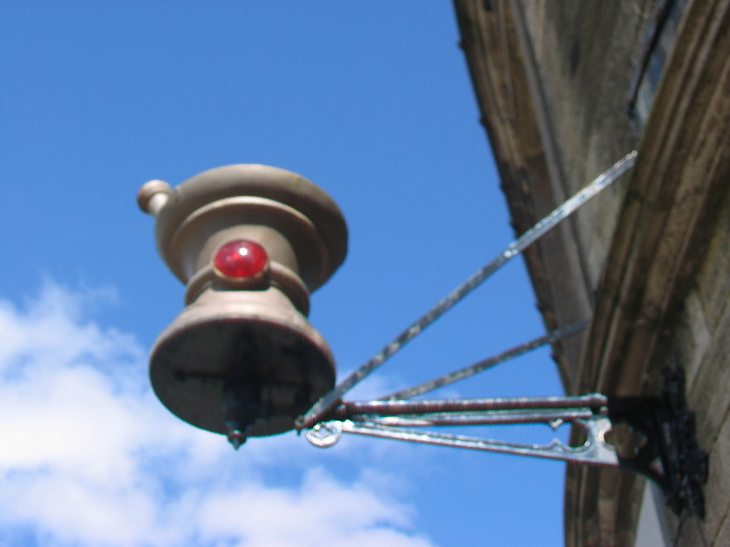 Innerleithen high street